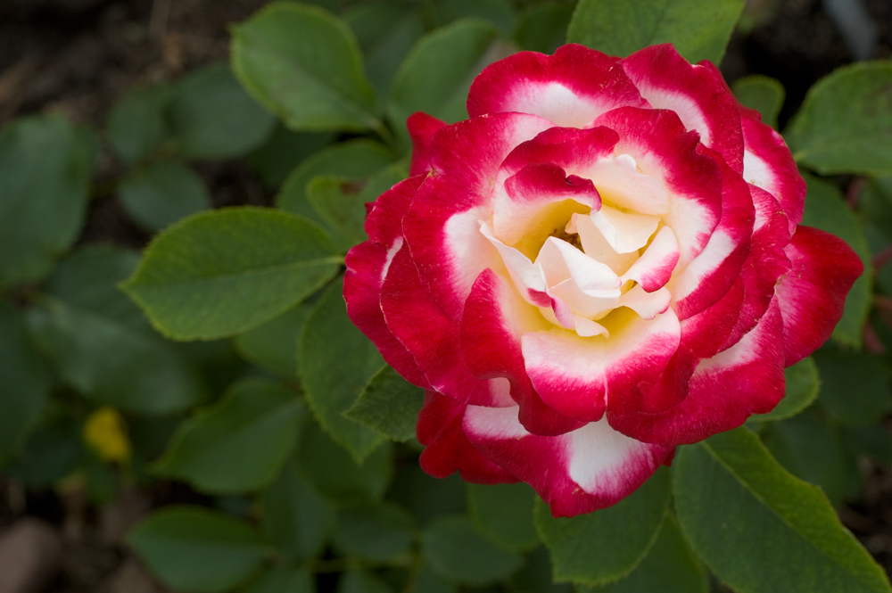 Shot in Minnesota. Image of a Hybrid Tea, "Double Delight" variety. Copyright © 2004-2006 April King, aka Marumari, donated to Wikipedia under the GFDL.